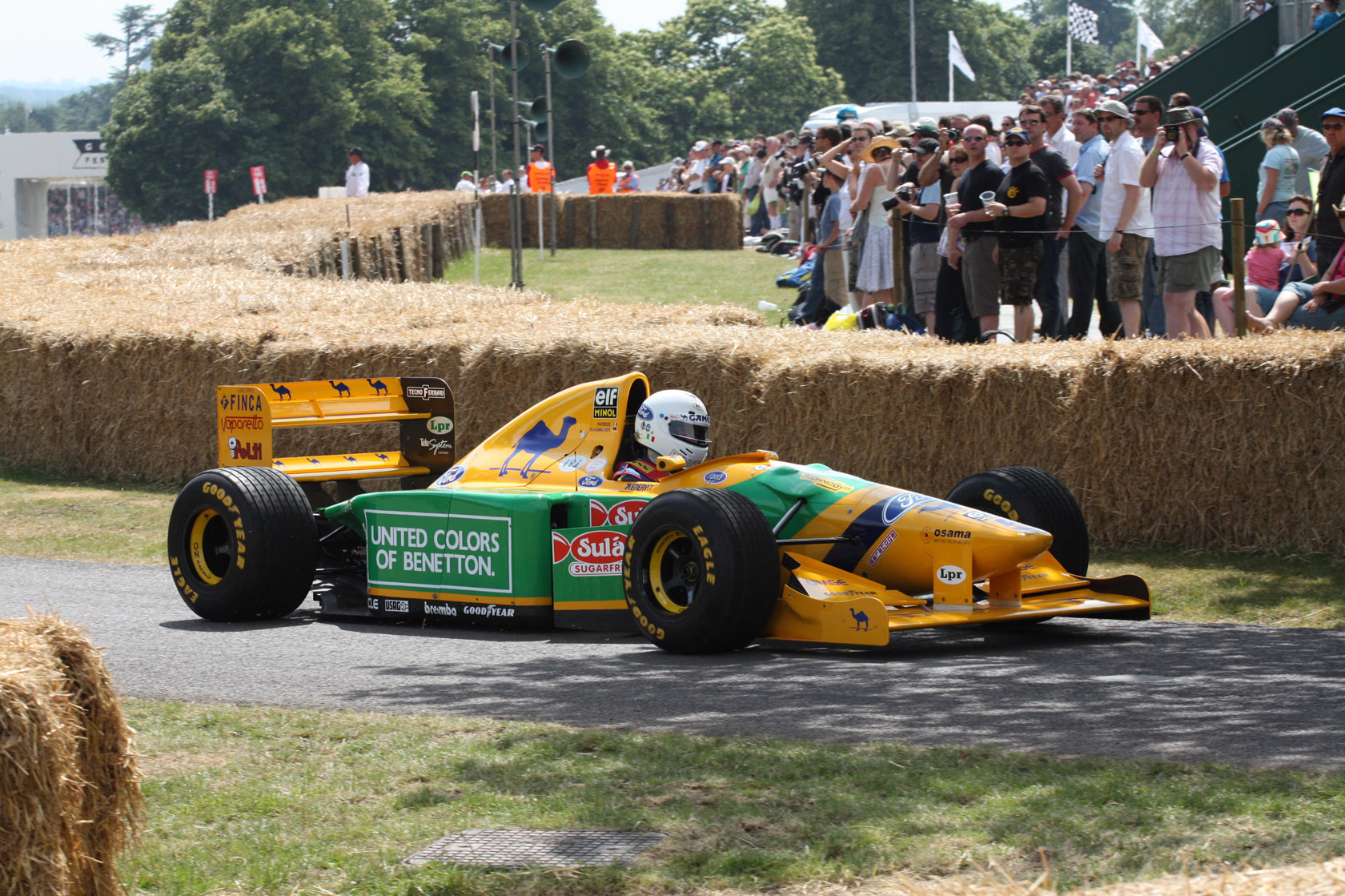 A photograph of the benetton B193 at the goodwood festival of speed